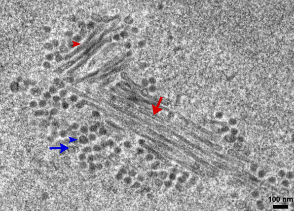 Thin-section image illustrating tubular structures and virions in a virus factory formed in cells infected with murine polyomavirus. Red indicators point to tubular structures (arrow: empty tubule; arrowhead: filled tubule) and blue indicators point to virions (arrow: empty virion; arrowhead: filled virion). Bar at bottom right indicates scale. Cropped and arrows recolored from original in Figure 2A from: Virion Assembly Factories in the Nucleus of Polyomavirus-Infected Cells. Erickson KD, Bouchet-Marquis C, Heiser K, Szomolanyi-Tsuda E, Mishra R, et al. (2012) Virion Assembly Factories in the Nucleus of Polyomavirus-Infected Cells. PLoS Pathog 8(4): e1002630.